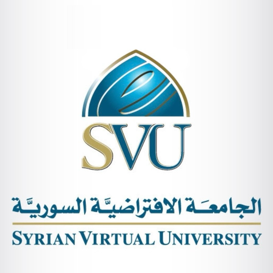 Syrian Virtual University - Logo